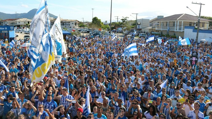 Torcida do Avaí comemorando o acesso em 2016.